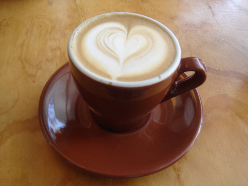 Wet Cappuccino with heart latte art